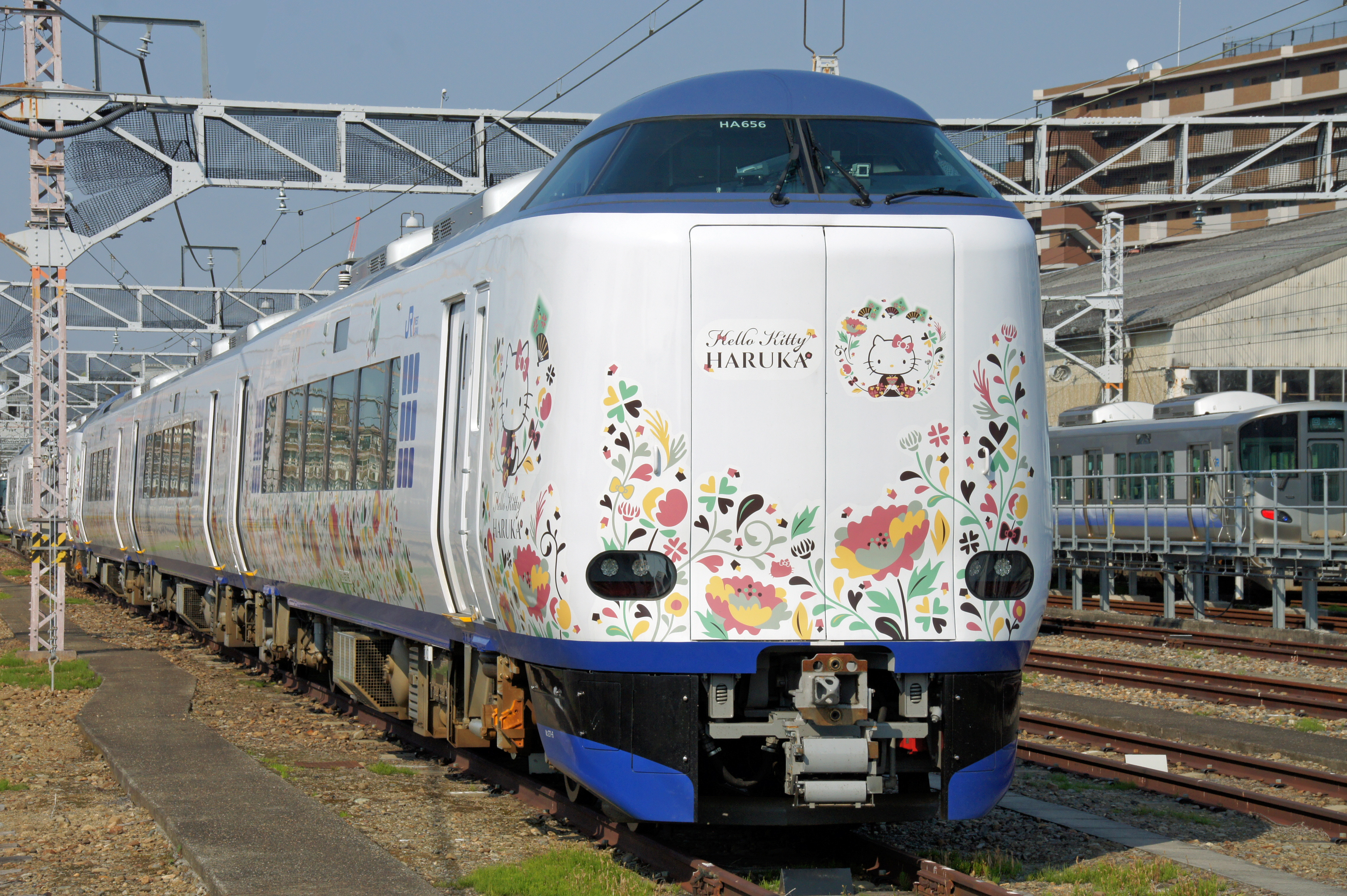 JR West 271 series EMU in Hello Kitty Haruka livery